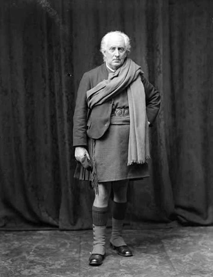 William Gibson, 2nd Baron Ashbourne. Photo taken 10 June 1929. National Library of Ireland reference P_WP_3623a